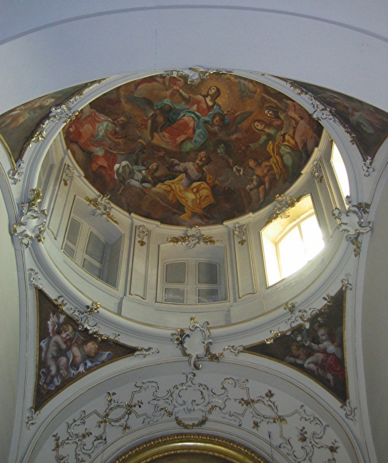 Author : Urban Description : Chiesa di San Francesco a Catania, Sicilia Body : Canon Powershot A80 Date : August, 2005